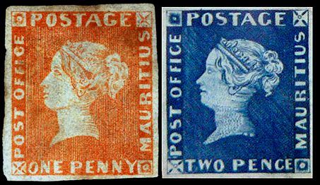 Postage stamps of Mauritius Red and Blue "Post Office", 1847, 1 penny and 2 pence